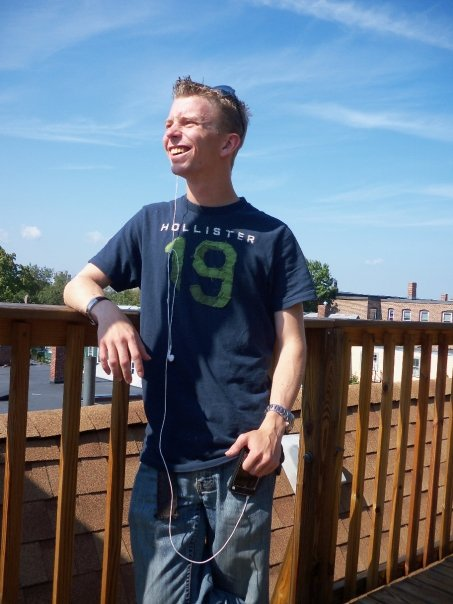 Chelsea Manning (known as "Bradley Manning" at time photo was taken)